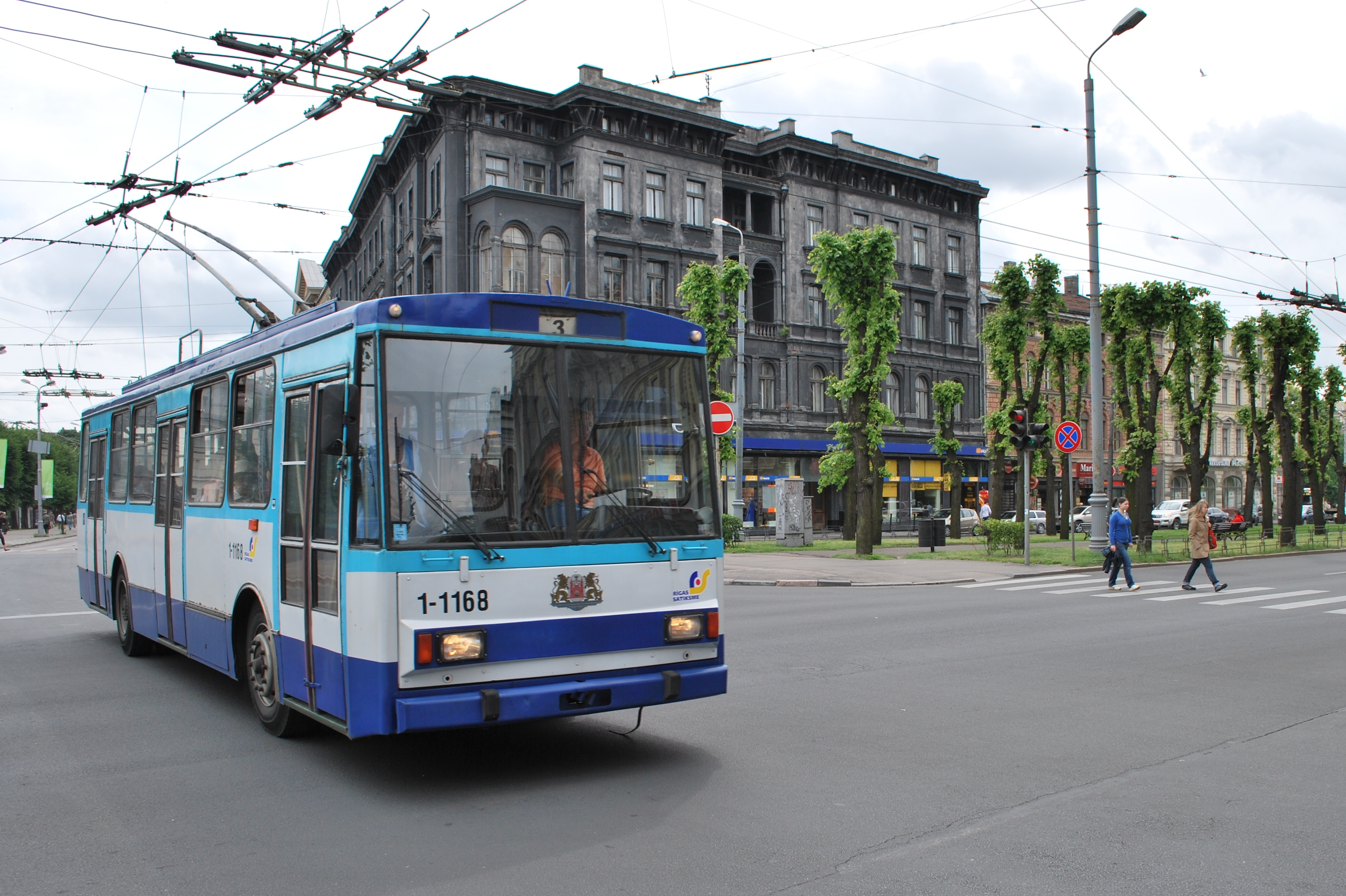 Škoda 14Tr trolleybus in Riga, Latvia